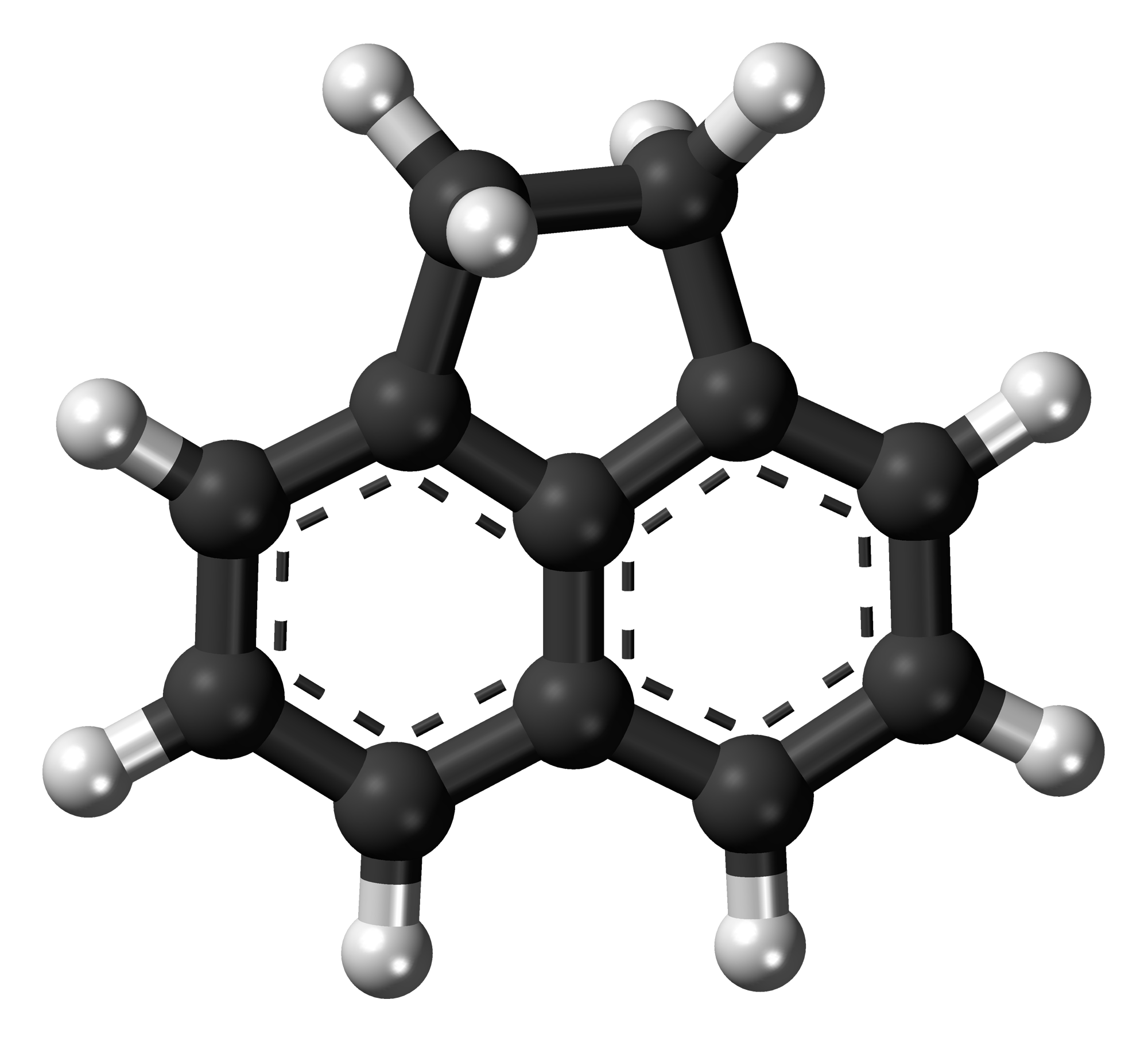 Ball-and-stick model of the acenaphthene molecule, a polycyclic aromatic hydrocarbon. Colour code: Carbon, C: black Hydrogen, H: white